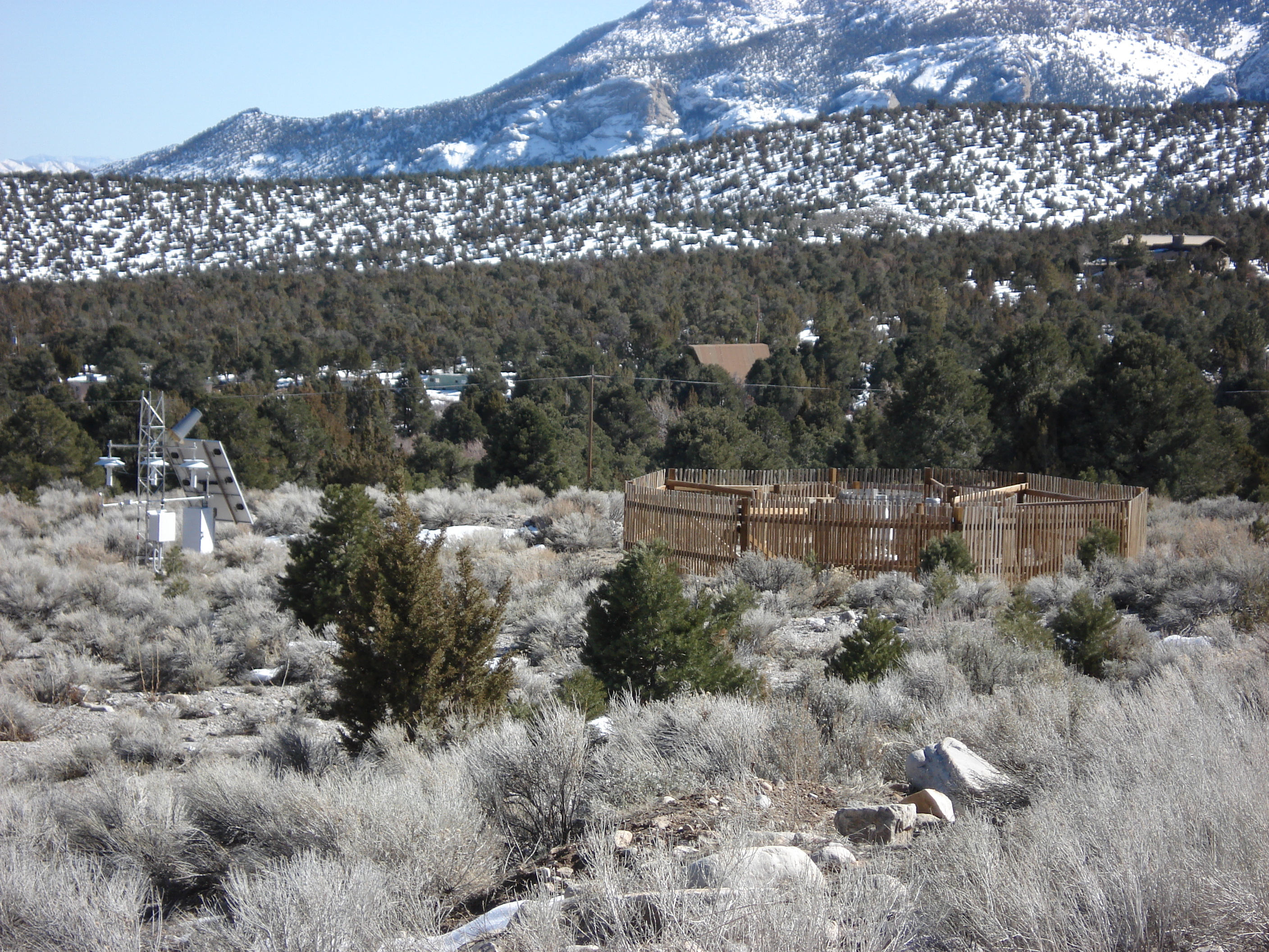 Closer view of the Baker 5W US Climate Reference Network station